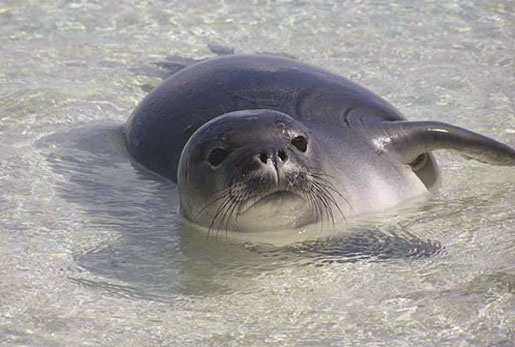 Monachus schauinslandi